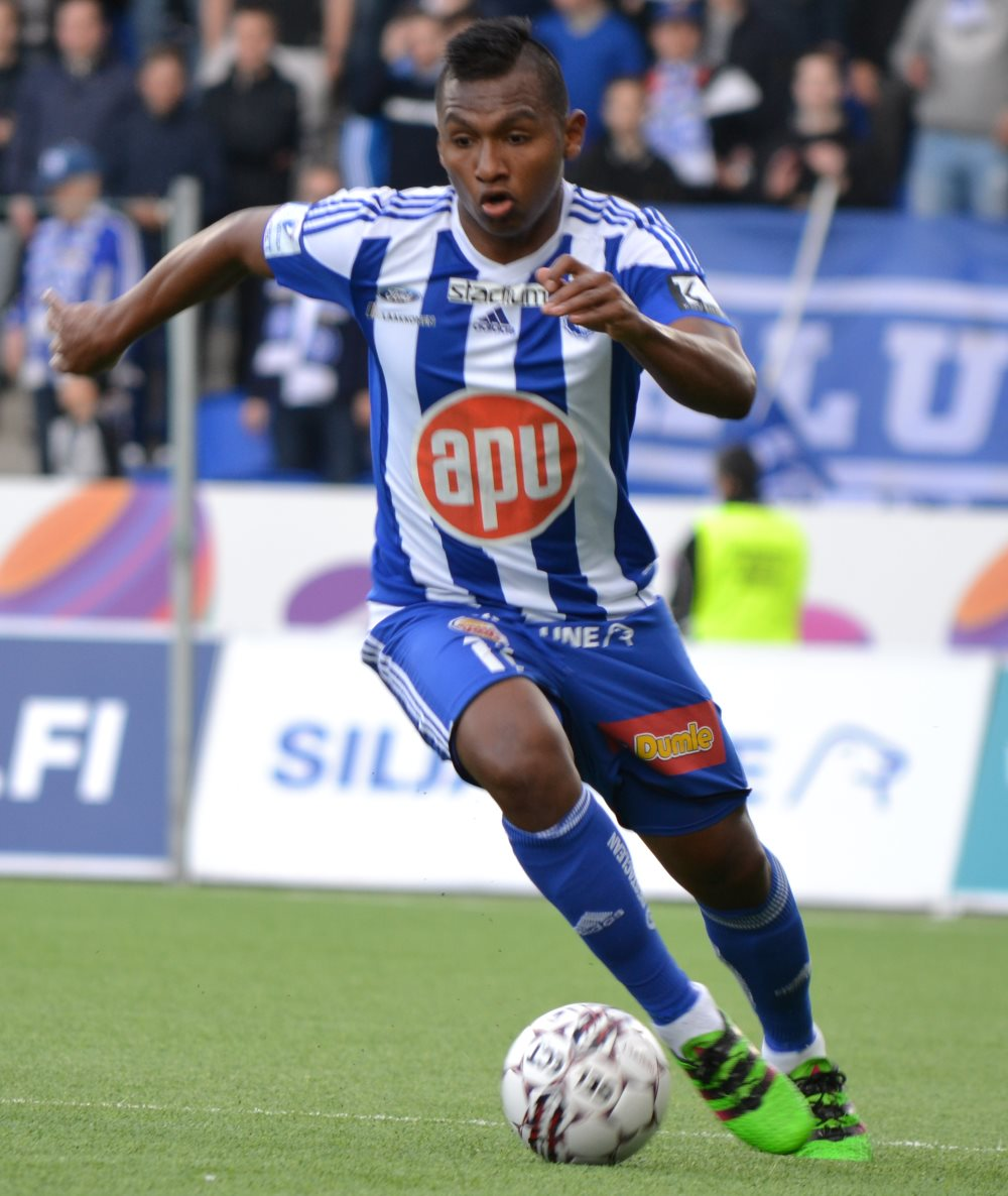 Football players Alfredo Morelos (HJK)